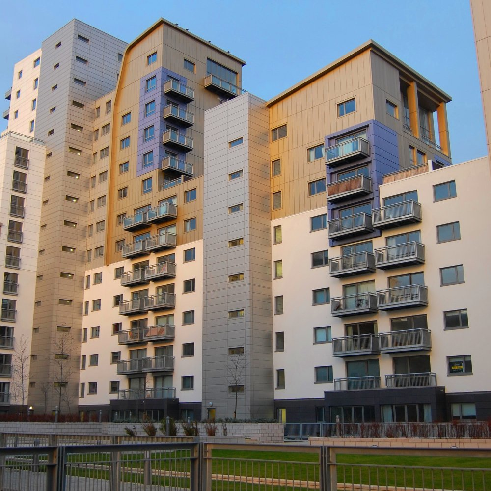 Photo of newly-built apartment buildings on Edinburgh Waterfront, 2007. Self made - cropped and brightened.